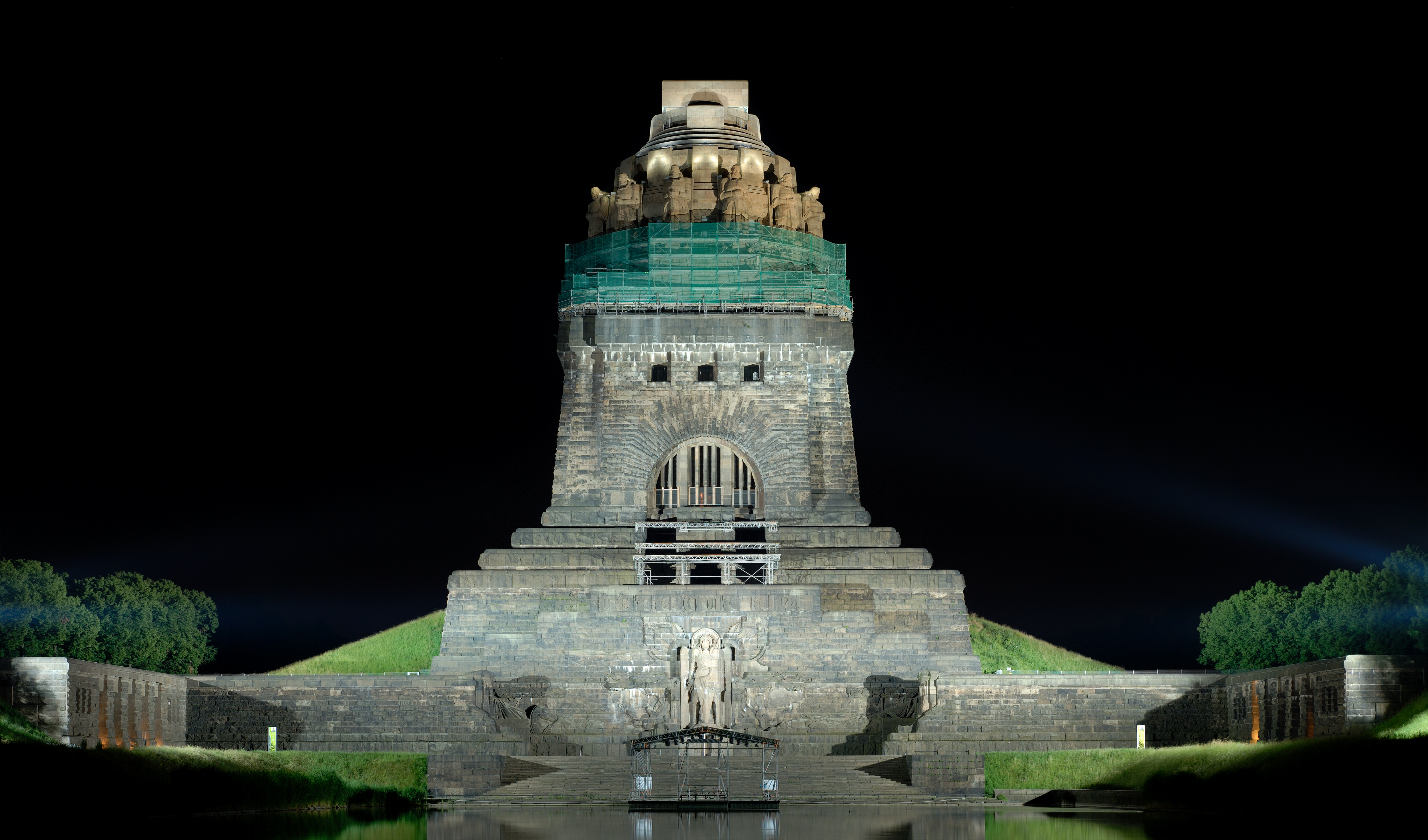 This image shows a night shot of the Völkerschlachtdenkmal (Monument of the Battle of the Nations) in Leipzig, Germany. The monument is currently under restoration, with work scheduled to be finished by 2013. It is a four segment panoramic image.